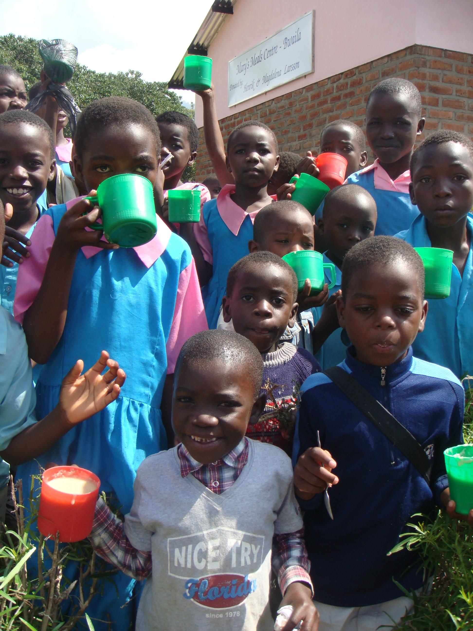 Malawi Kids with their Mary's Meals